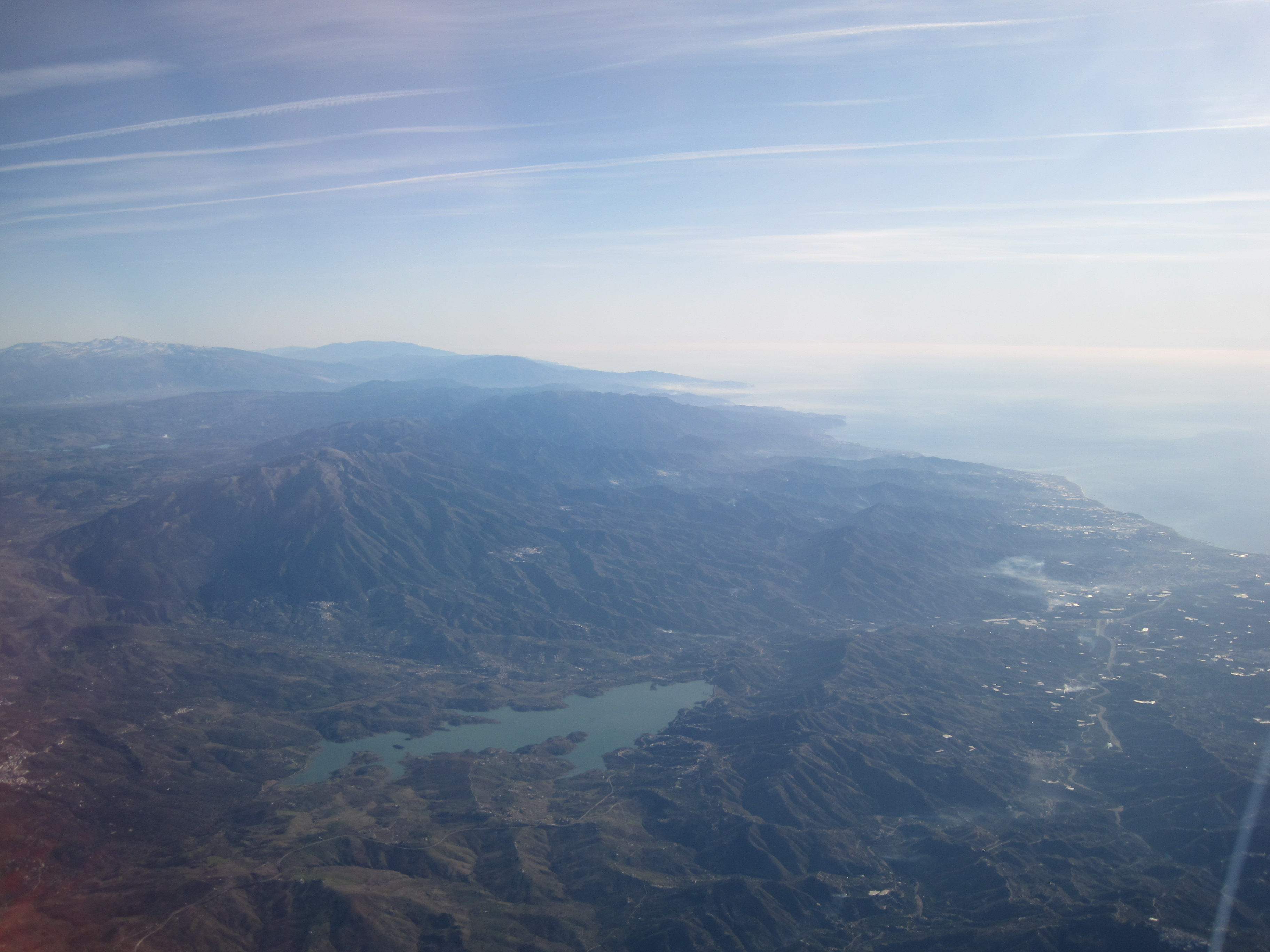 Embalse de la Viñuela, Málaga, view from a plane towards the Mediterranean Sea, Spain